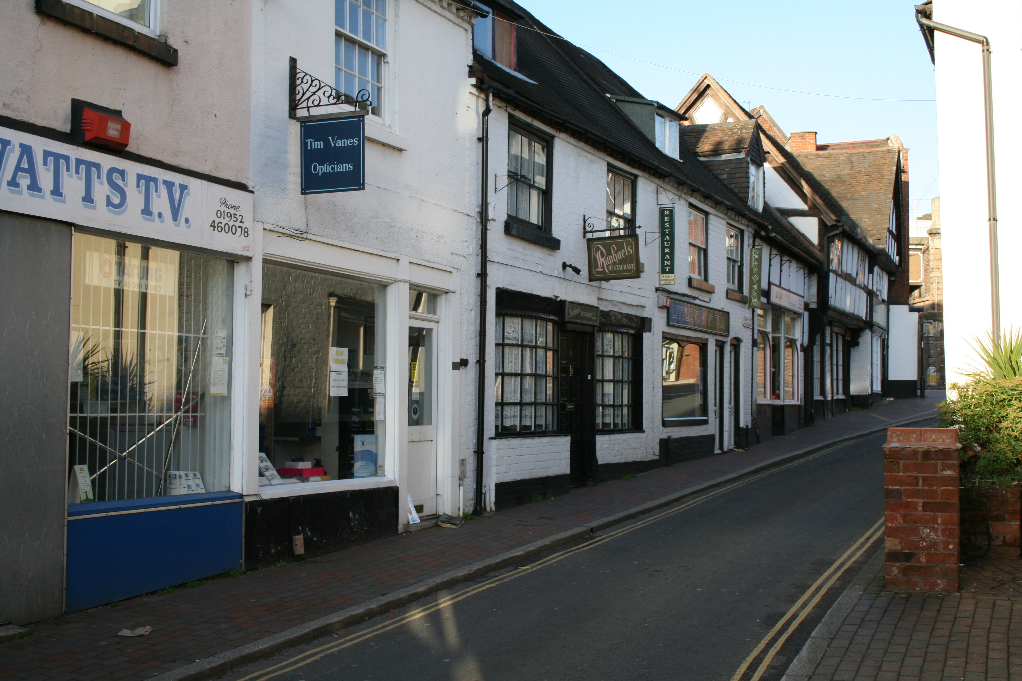 Church Street, Shifnal, Shropshire Own work Shropman 19:45, 20 April 2007 (UTC)